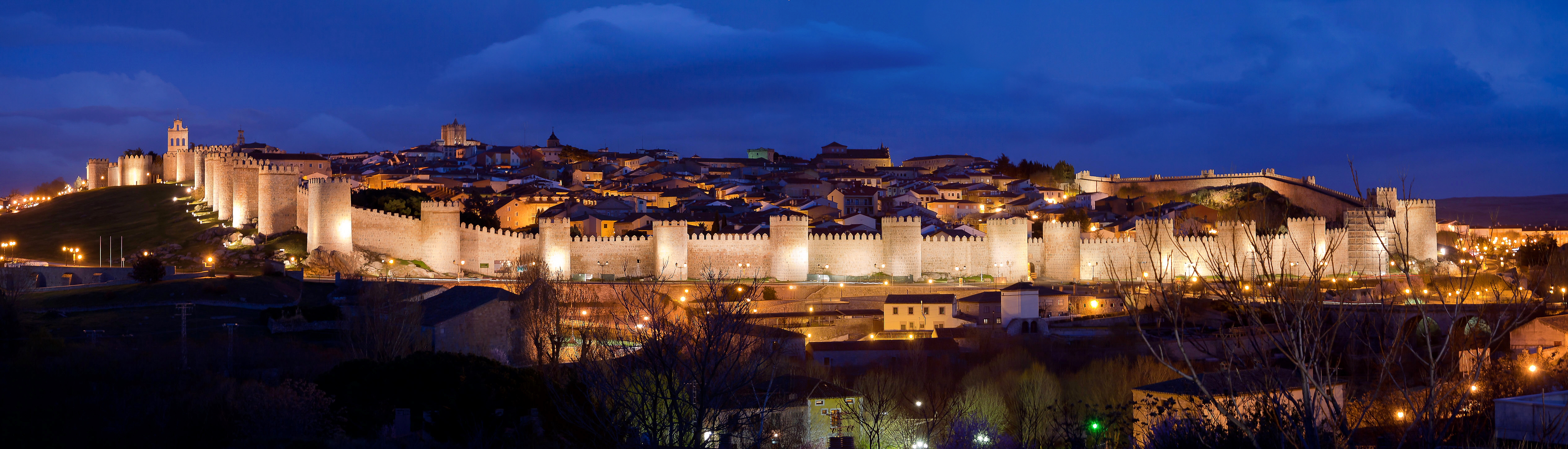 Night view of Ávila, Spain.